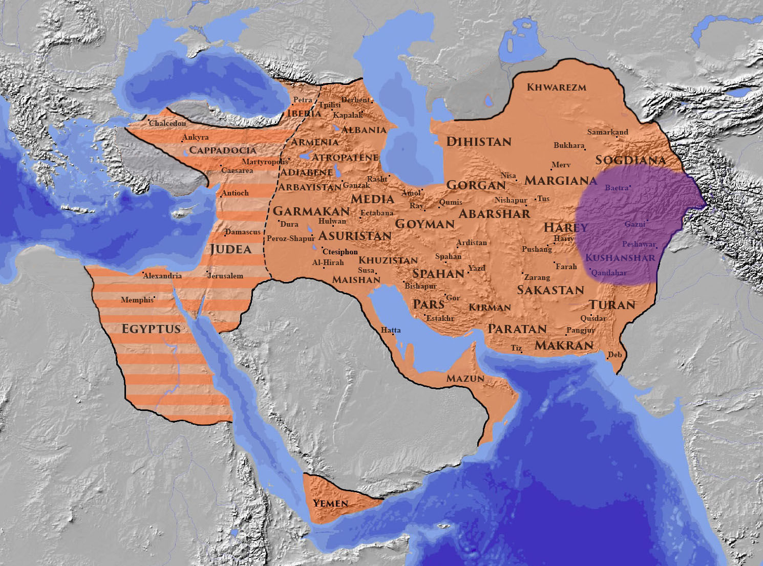 Coinage mint locations[1] Territory adapted from description in (2014). "From the Sasanians to the Huns New Numismatic Evidence from the Hindu Kush". The Numismatic Chronicle (1966-) 174: 266. ISSN 0078-2696.